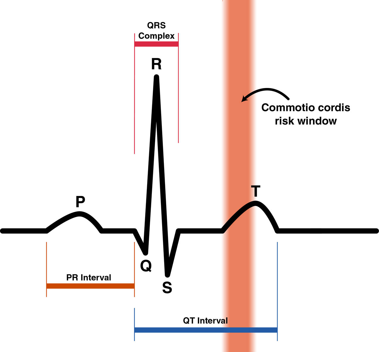 A simple diagram showing the portion of normal sinus rhythm in which a blow to the chest may induce commotio cordis, for the article of the same name.